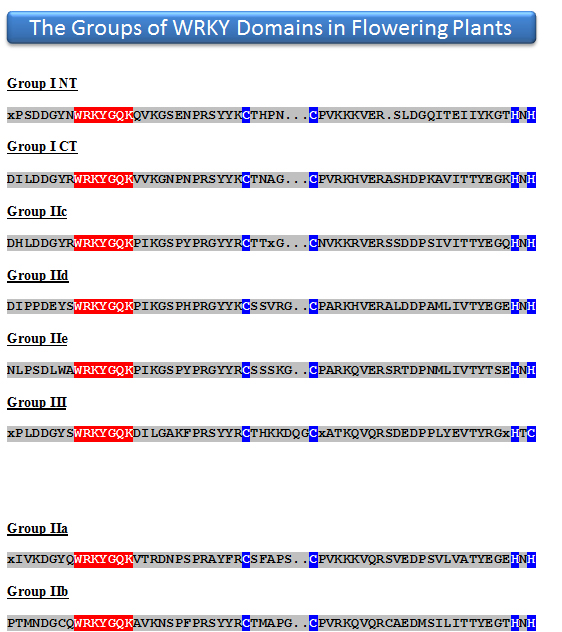 Consensus sequences of the Group I, IIa, IIb, IIc, IId, IIe, and III WRKY domains. Intron positions are also shown.